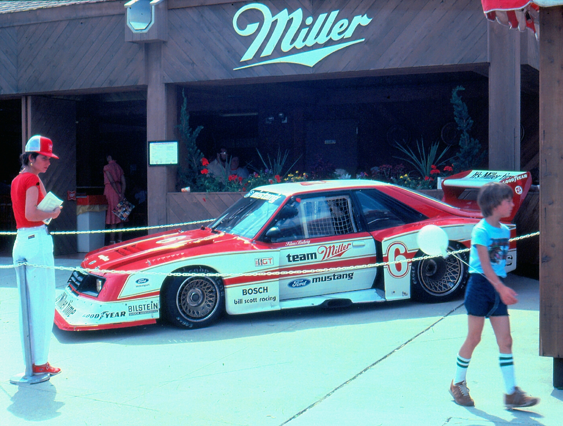 Winner of Wisconsin State Fair racing in 1981